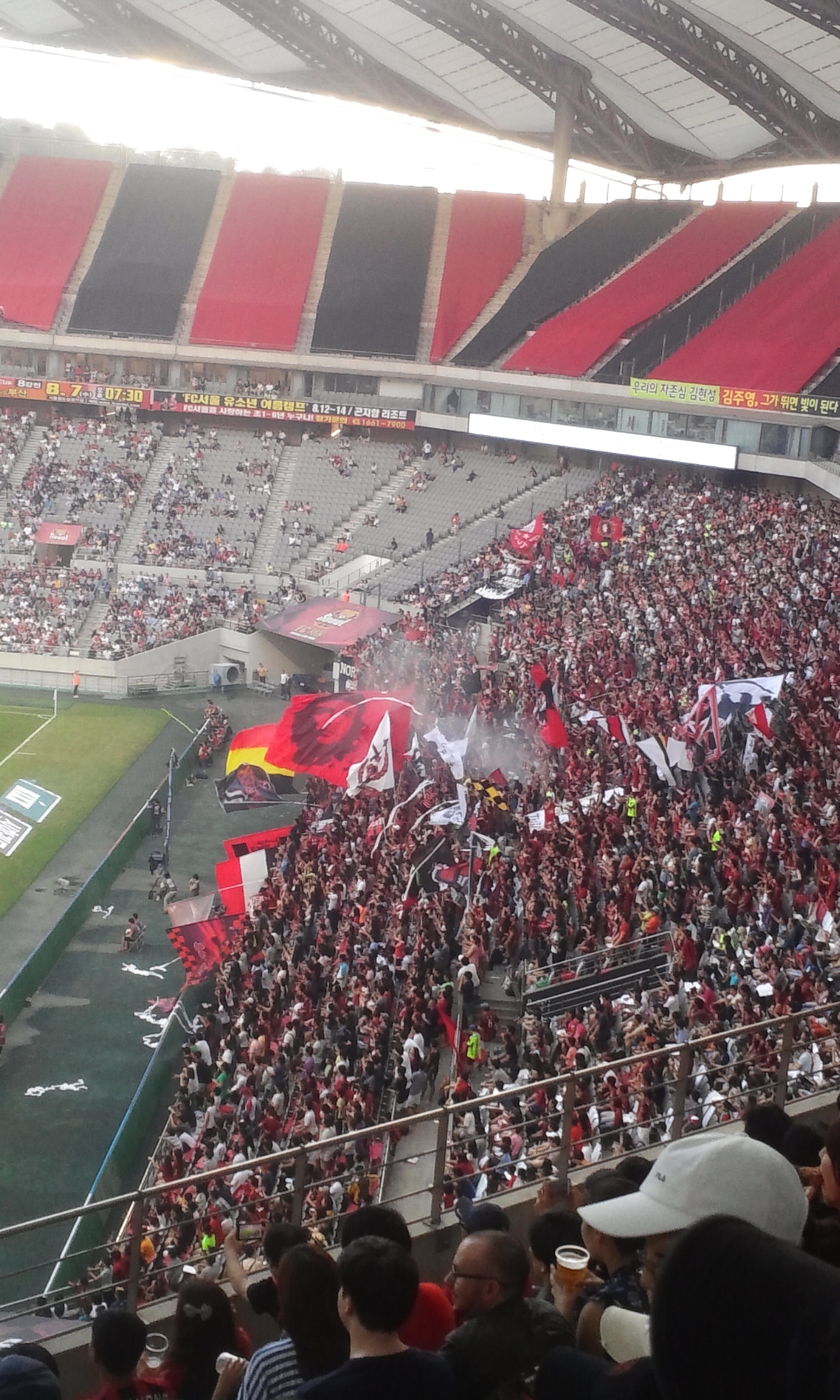 FC Seoul supporters' groups of north stand, 2013-08-03